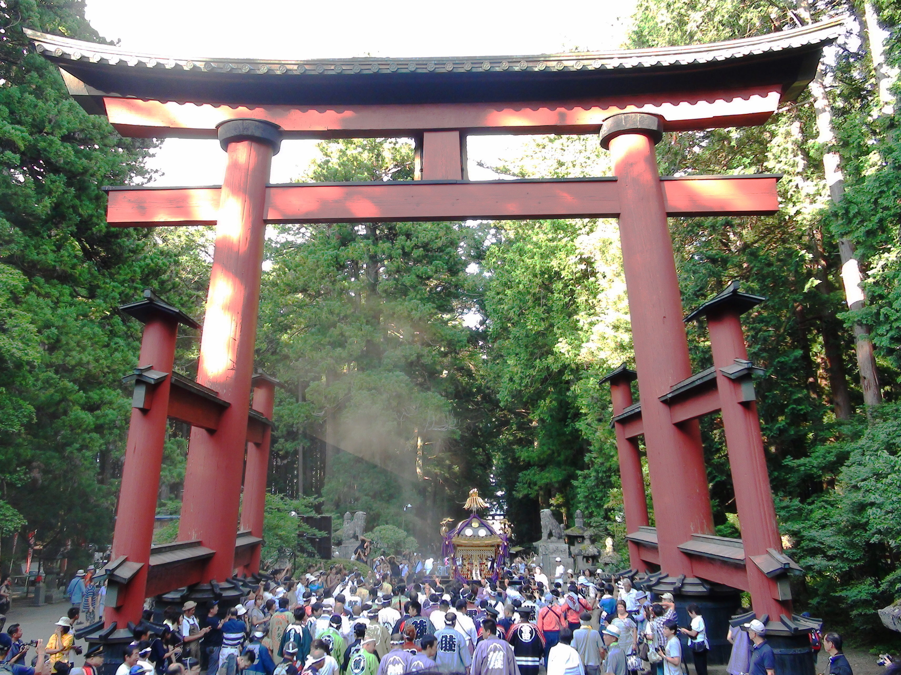 Departure of Myojin mikoshi.Yoshida Fire Festival